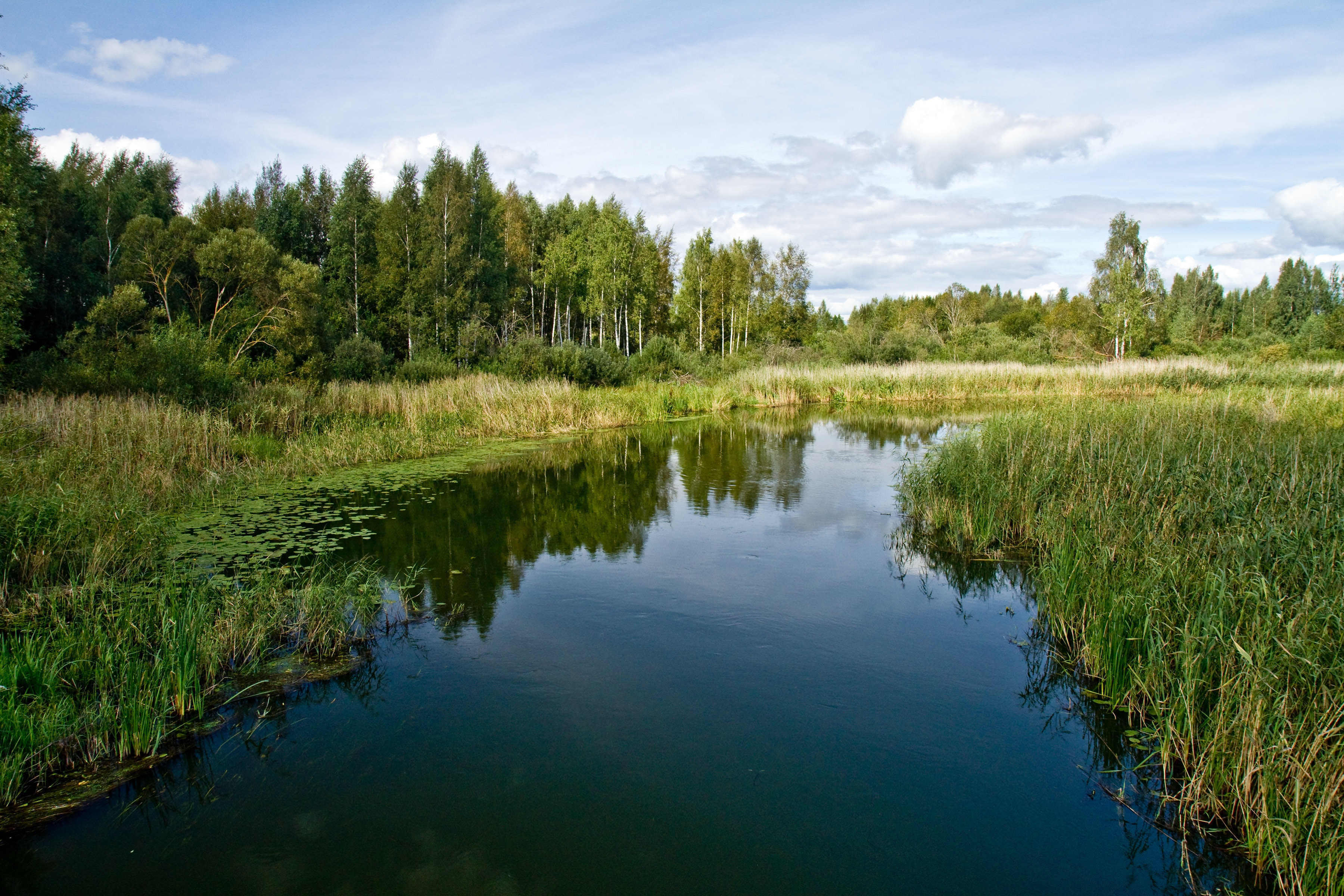 Drujka river. Brasłau district, Viciebsk province, Belarus.